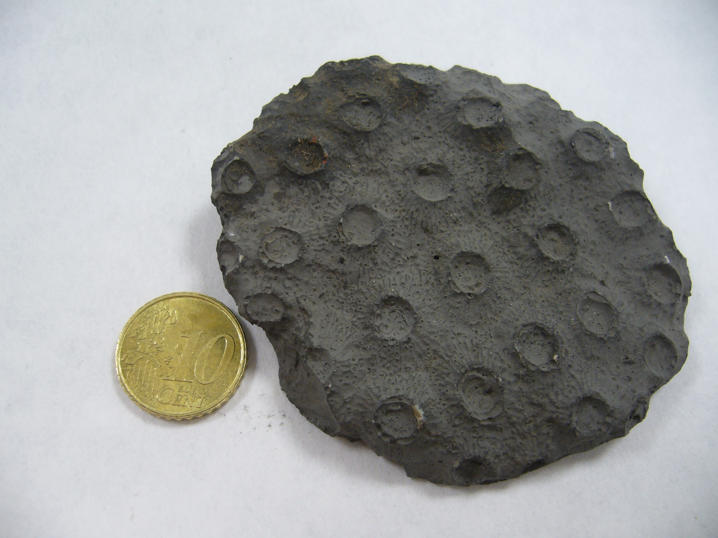 Acervularia troscheri fossil (Silurian-Devonian), in a laboratory of practices of the Faculty of Sciences of the University of Corunna.